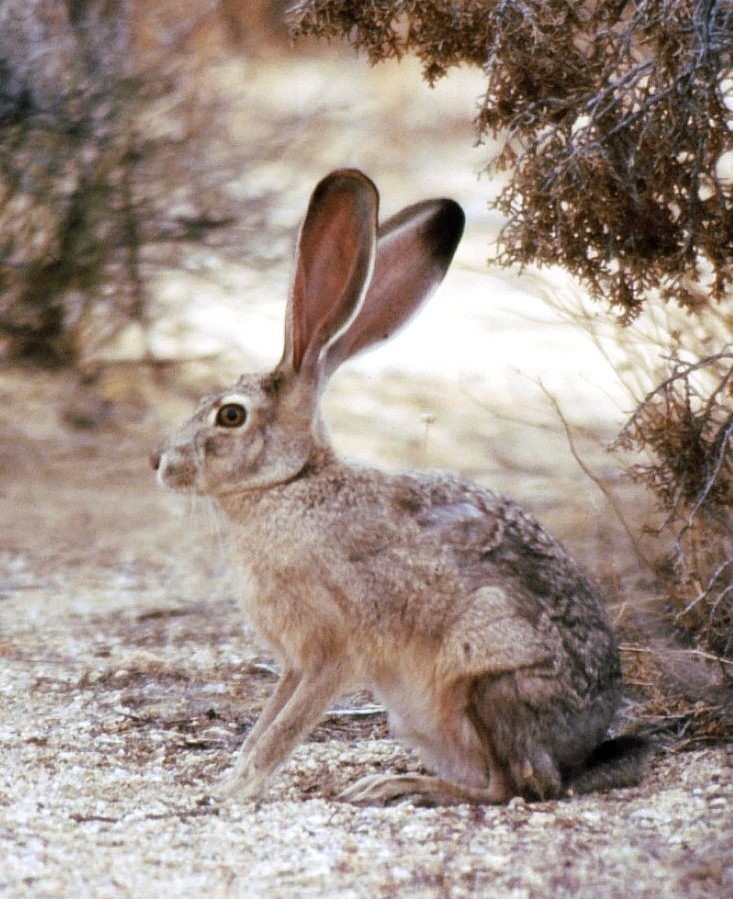 Black-tailed Jackrabbit (Lepus californicus), Joshua Tree National Park, USA